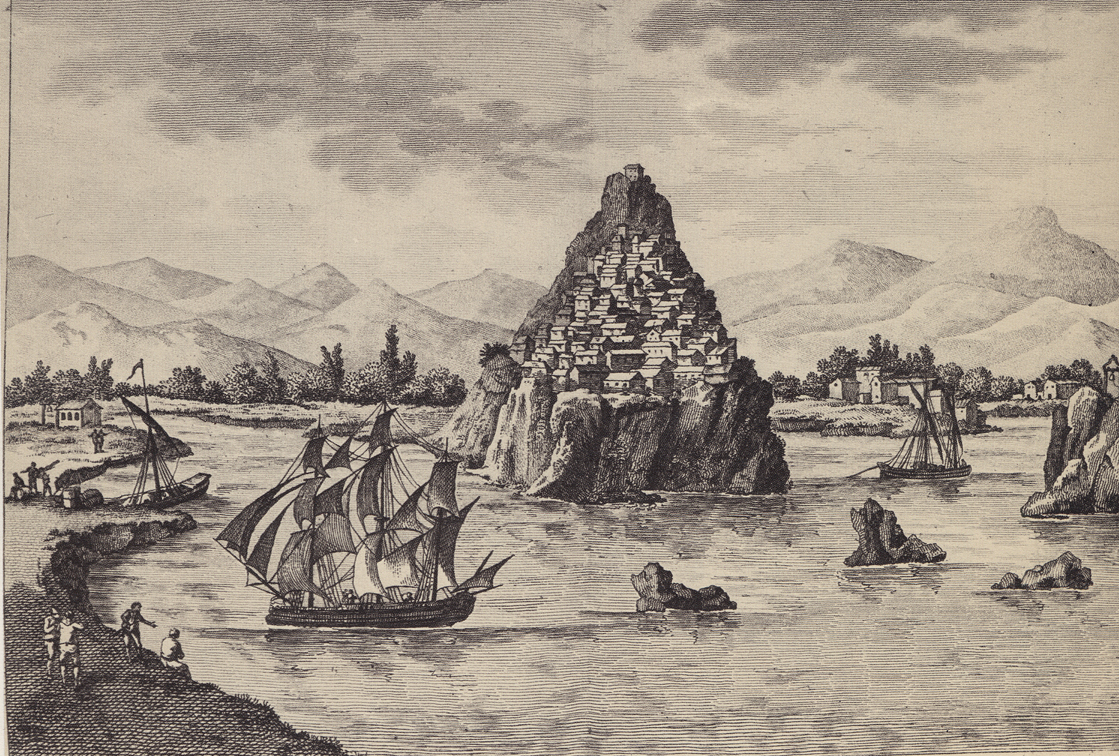 Parga in a 19th century gravure